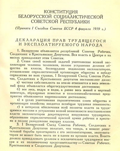 The Constitution of the Belarus Soviet Rеpublic 1919.